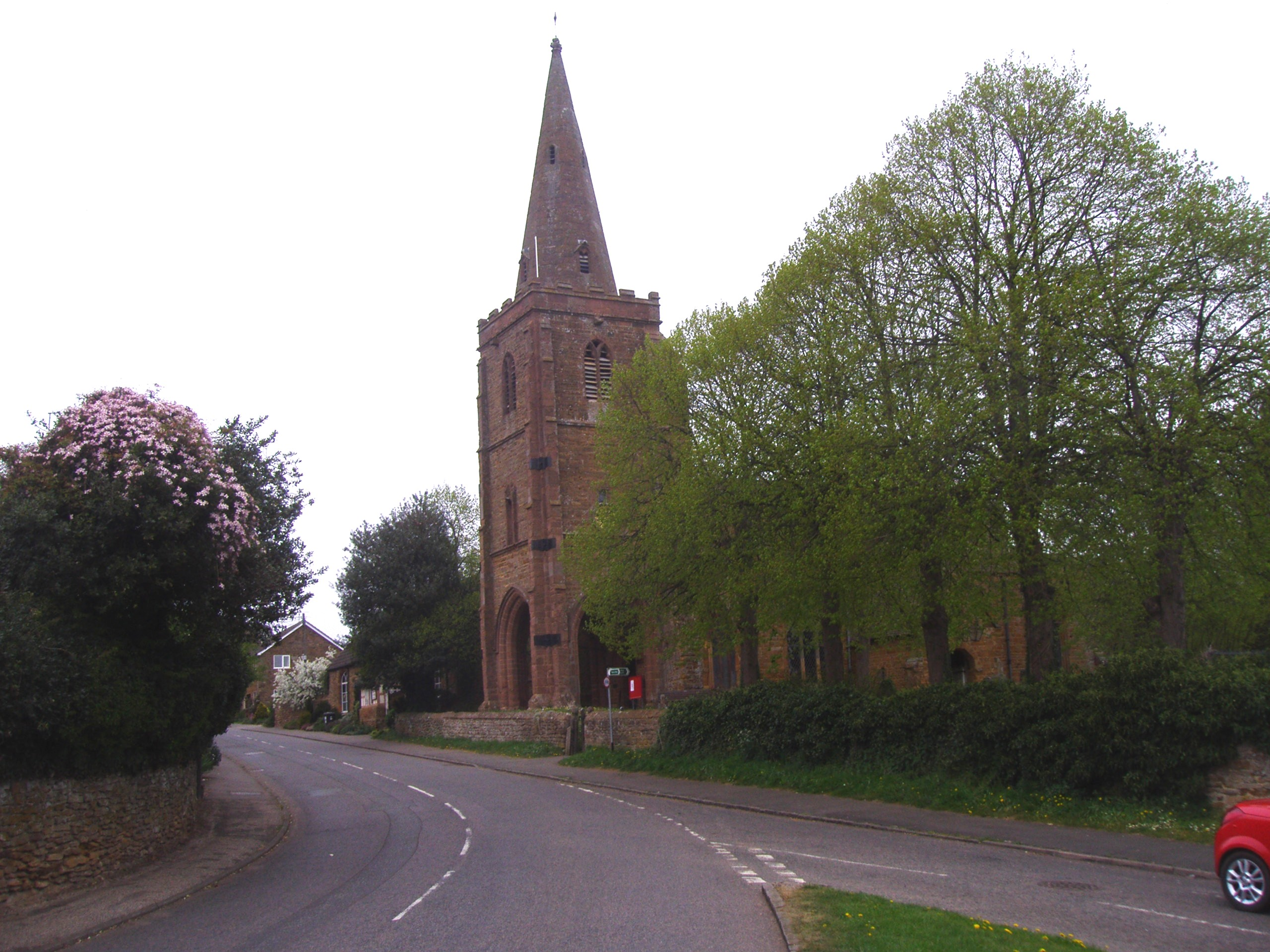 A Digital Photograph of Newnham Church, Northamptonshire